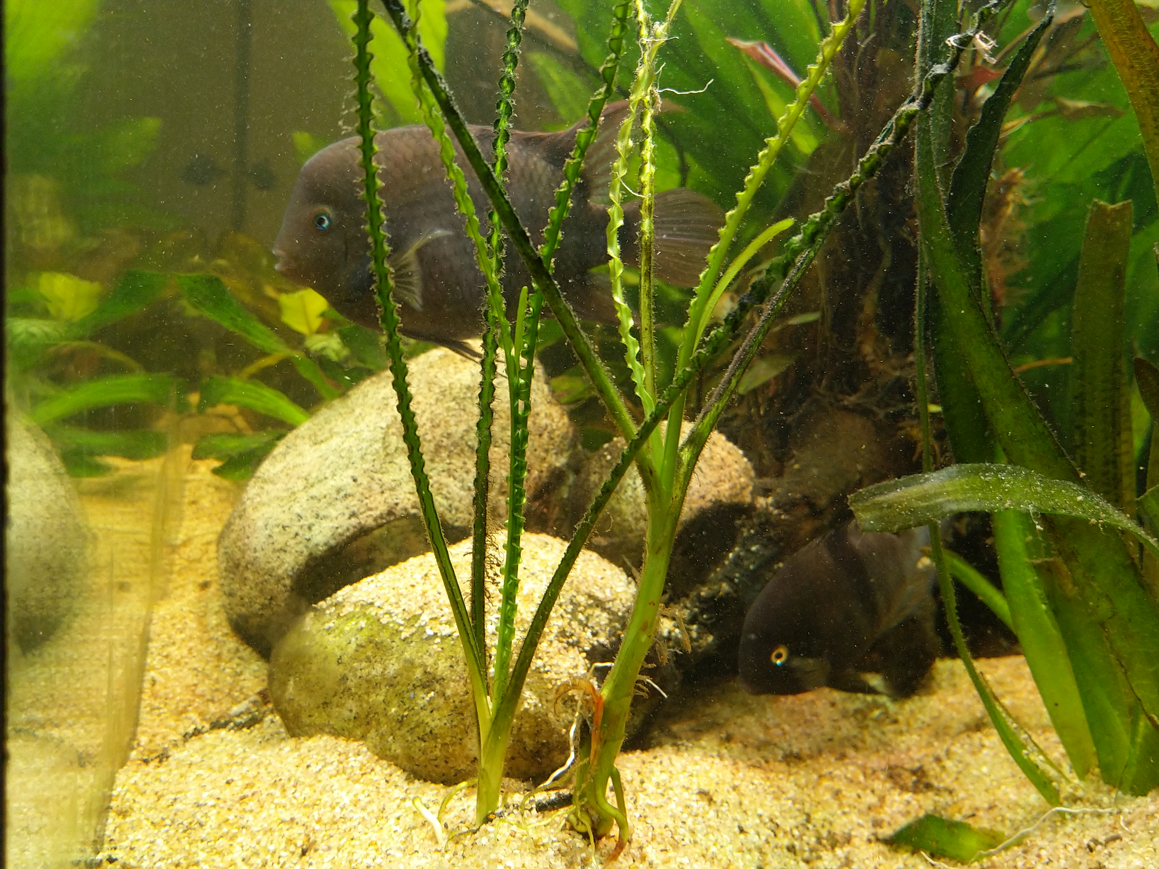 Couple Cryptoheros Sajica 2